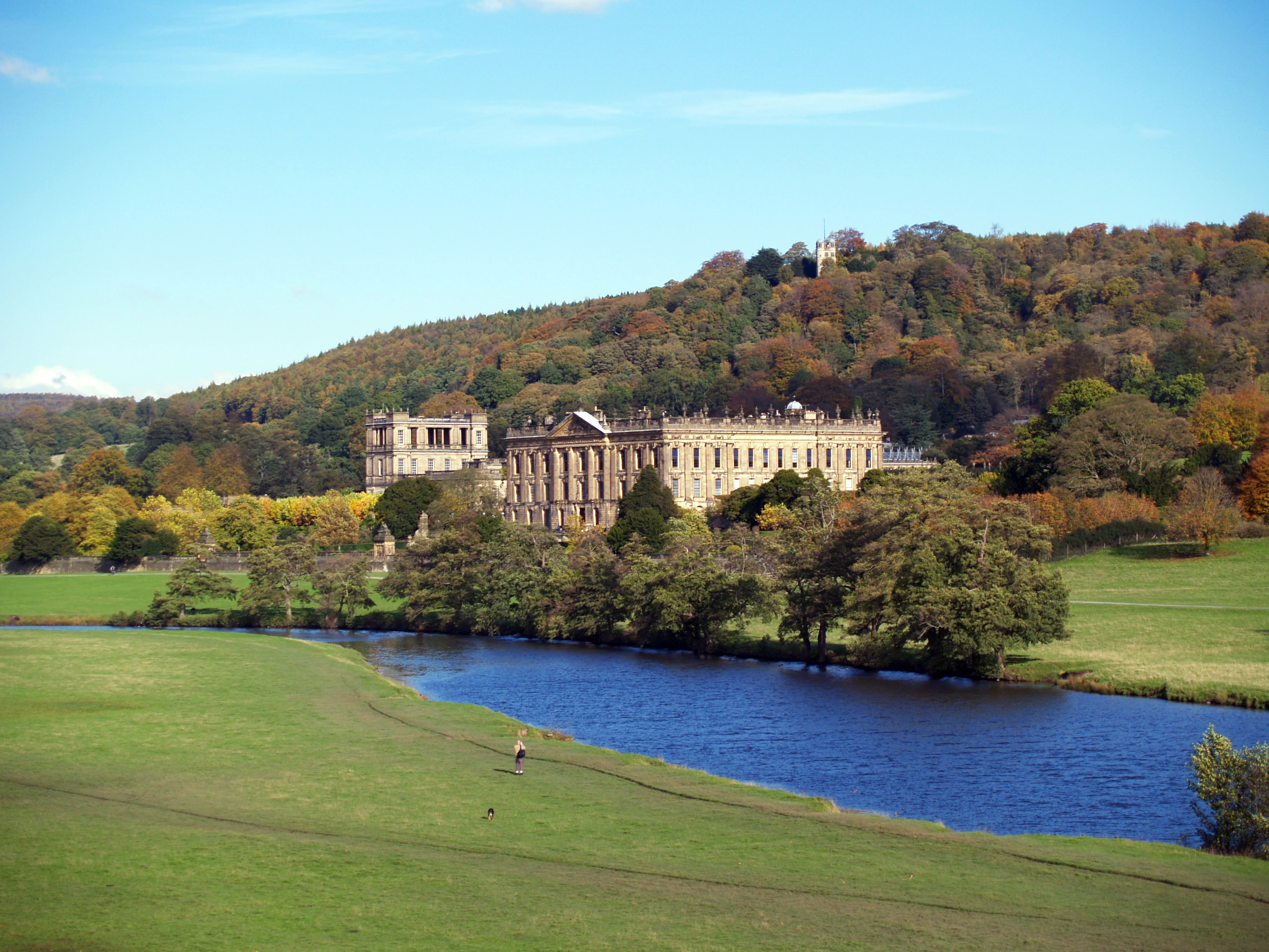 Taken by Paul Collins